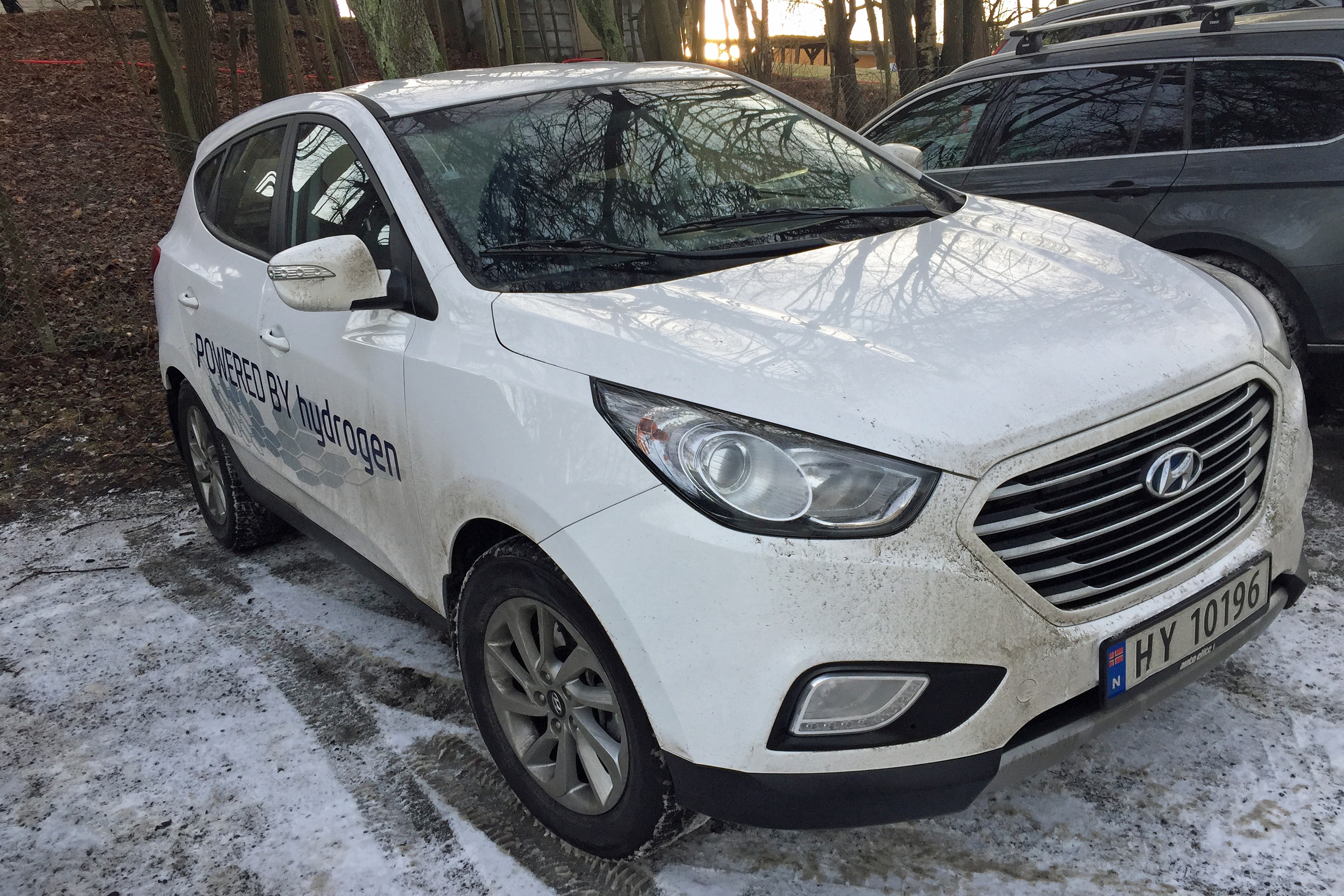 Hyundai ix35 fuel cell hydrogen-powerred car in Oslo, Norway